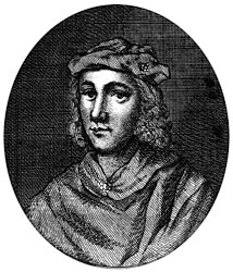 Constantine II, King of the Scots Gàidhlig: Còiseam II, Rìgh na h-Alba